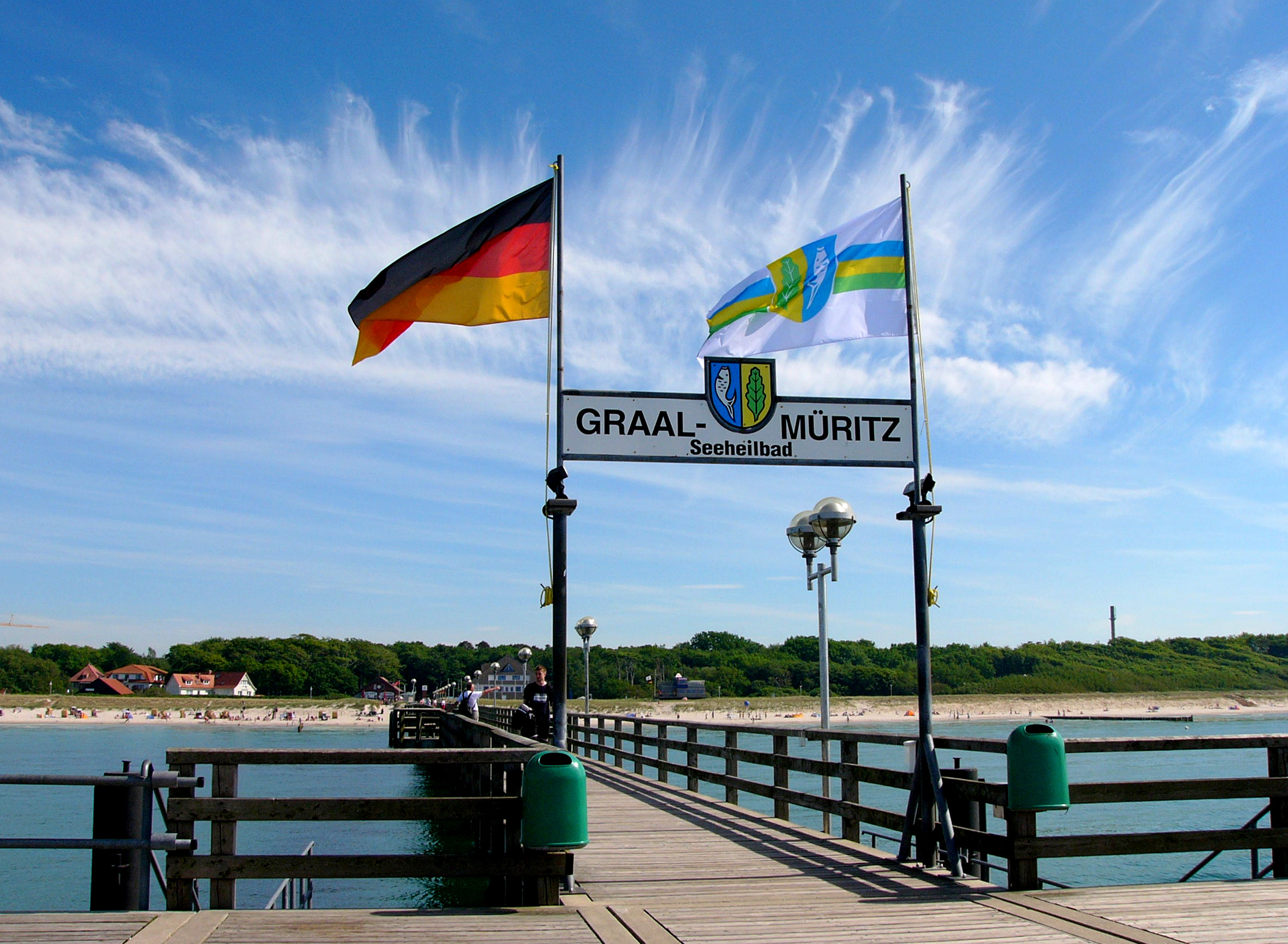 flag of the German municipality of Graal-Müritz